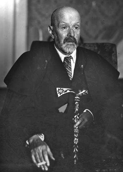 Jacek Malczewski